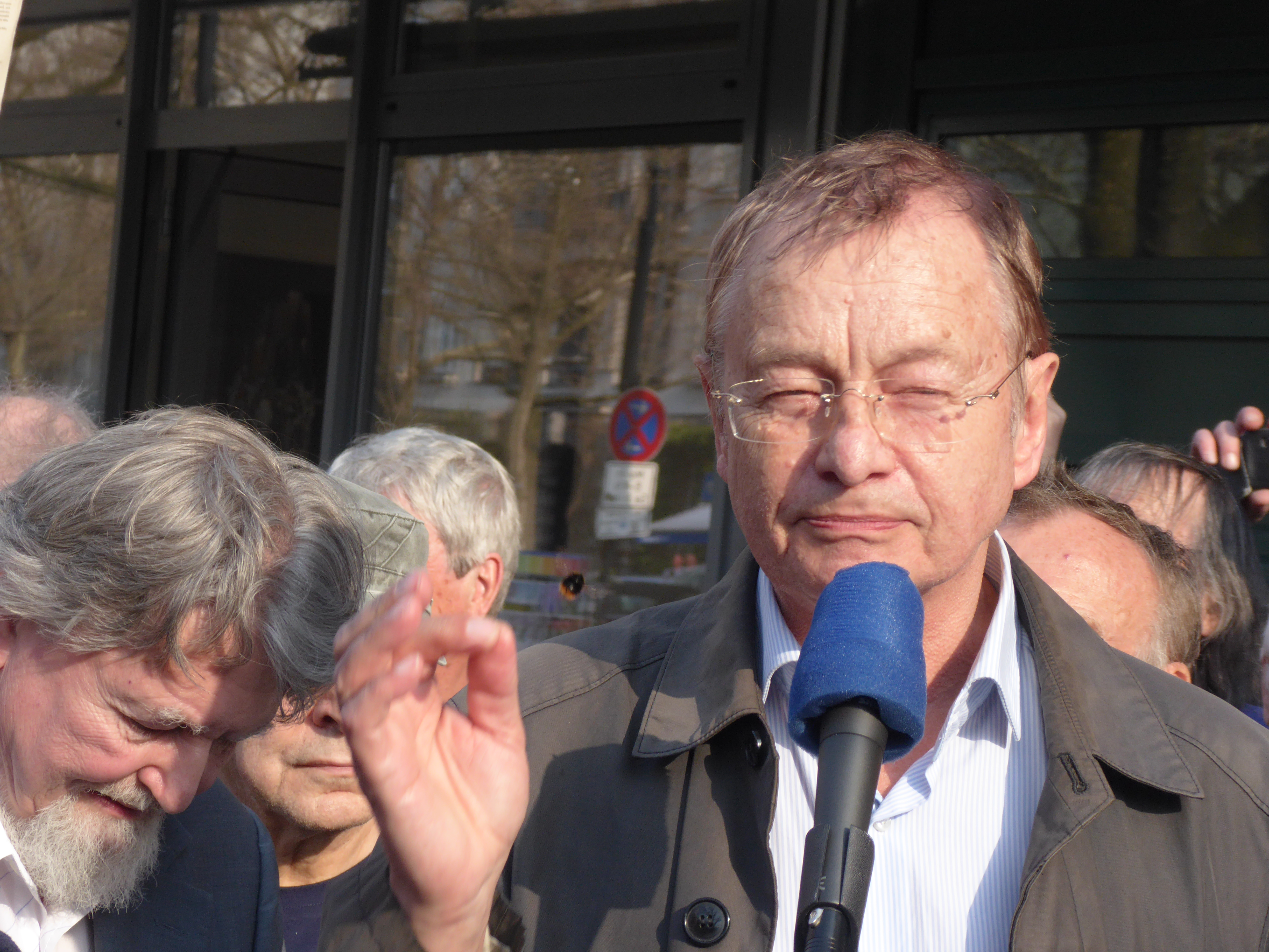 Hajo Funke bei der Gedenkveranstaltung für Rudi Dutschke am 11. April 2018